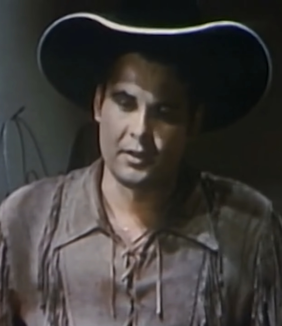 Sunset Carson, born Winifred Maurice Harrison (November 12, 1920 - May 1, 1990) was an American B-western star of the 1940s. This is an image isolated from a scene in a public domain film. (This image is low resolution, if a higher resolution scan of the film becomes available this image should be updated.)